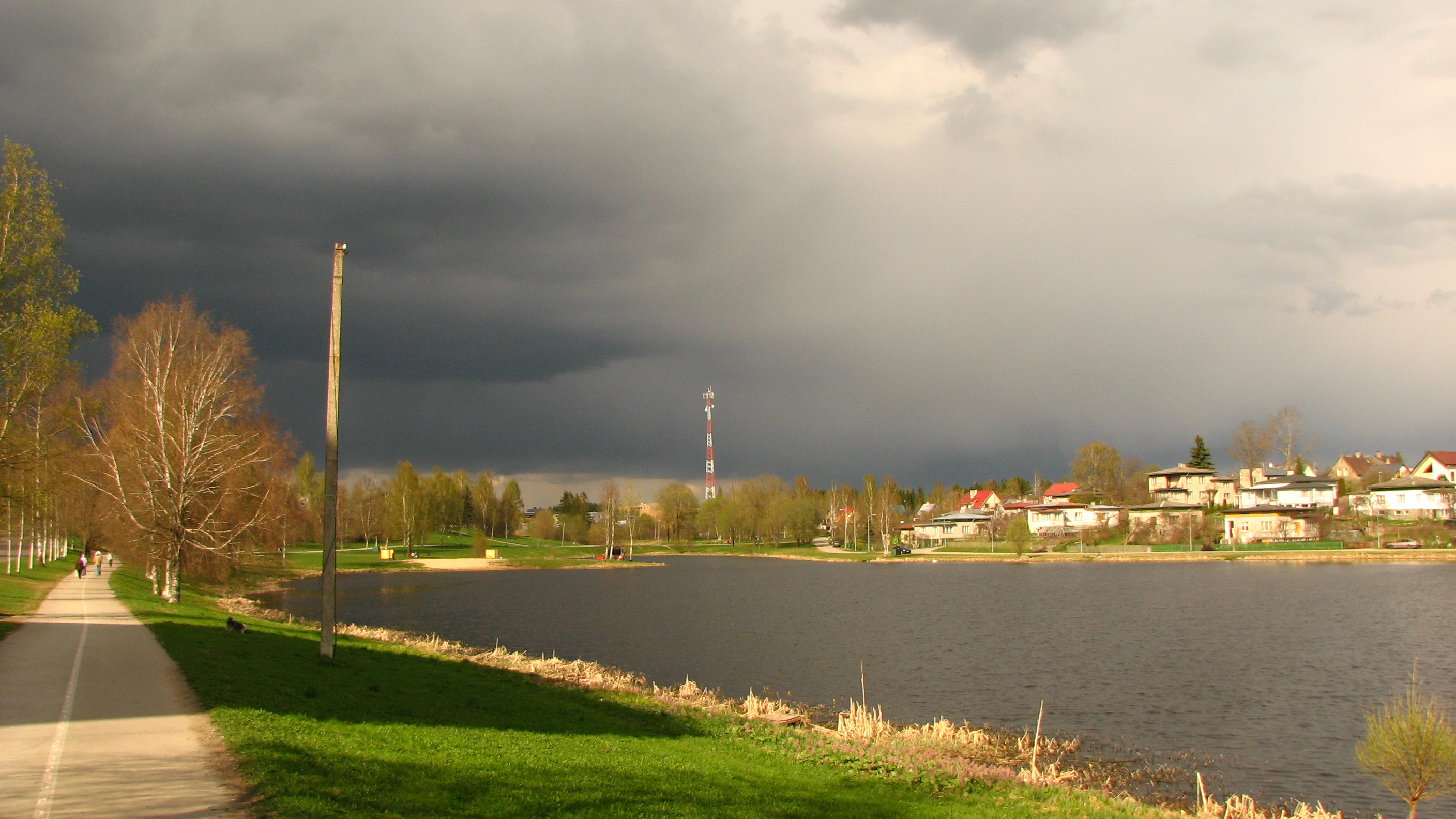 Lake Paala (previouse called Valuoja reservoir) in Viljandi, Estonia